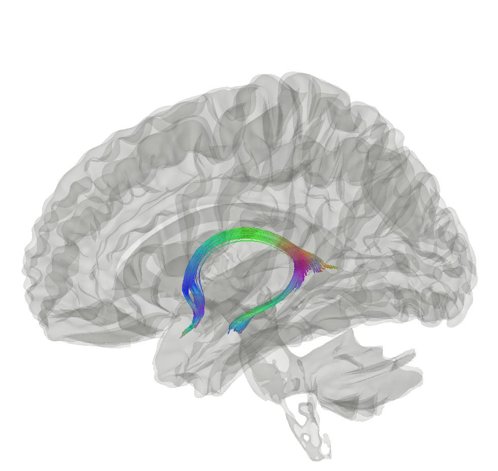 Tractography showing fornix on a population-averaged template